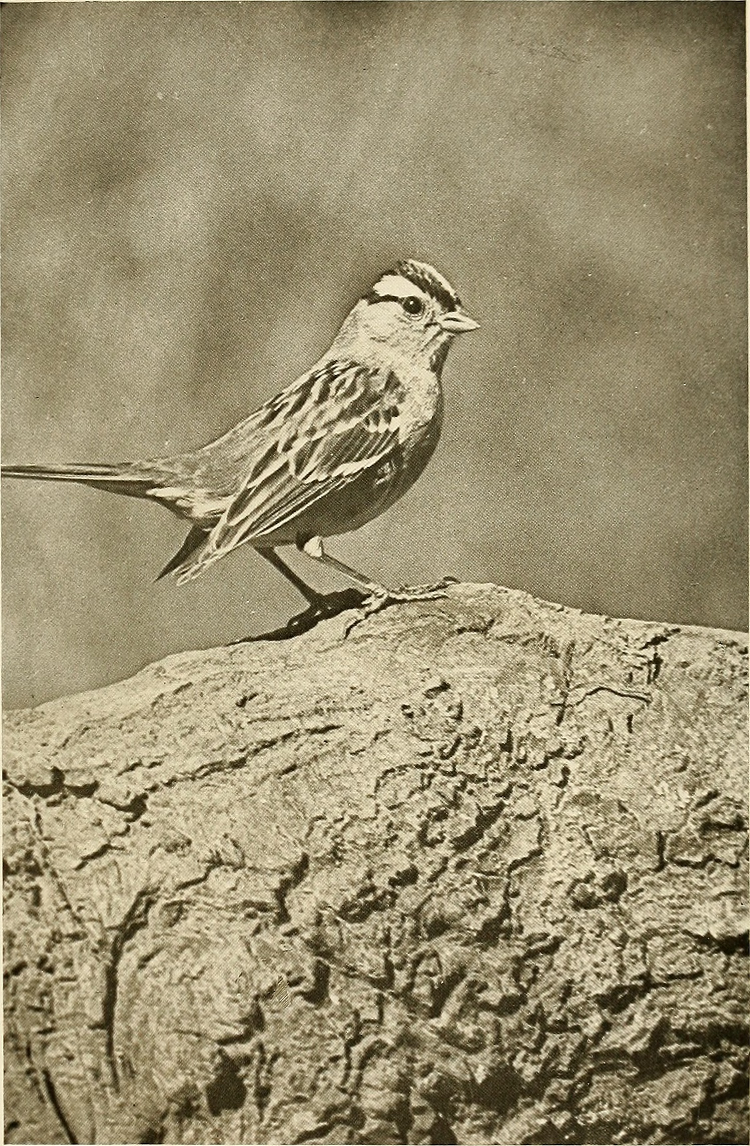 Gambel Sparrow on Log; From a photograph, Copyright 1914, by D. R. Dickey; Taken in Pasadena Title: The birds of California : a complete, scientific and popular account of the 580 species and subspecies of birds found in the state Year: 1923 (1920s) Authors: Dawson, William Leon, 1873-1928; Dickey, Donald R. (Donald Ryder), 1887-1932; Pierce, Wright M; Finley, William L. (William Lovell), 1876-1953; Brooks, Allan, 1869-1946 Subjects: Birds; Birds Publisher: San Diego ; Los Angeles ; San Francisco : South Moulton Company Text Appearing Before Image: ' Text Appearing After Image: Gambel Sparrow on Log From a photograph, Copyright 1914, by D. R. Dickey Taken in Pasadena